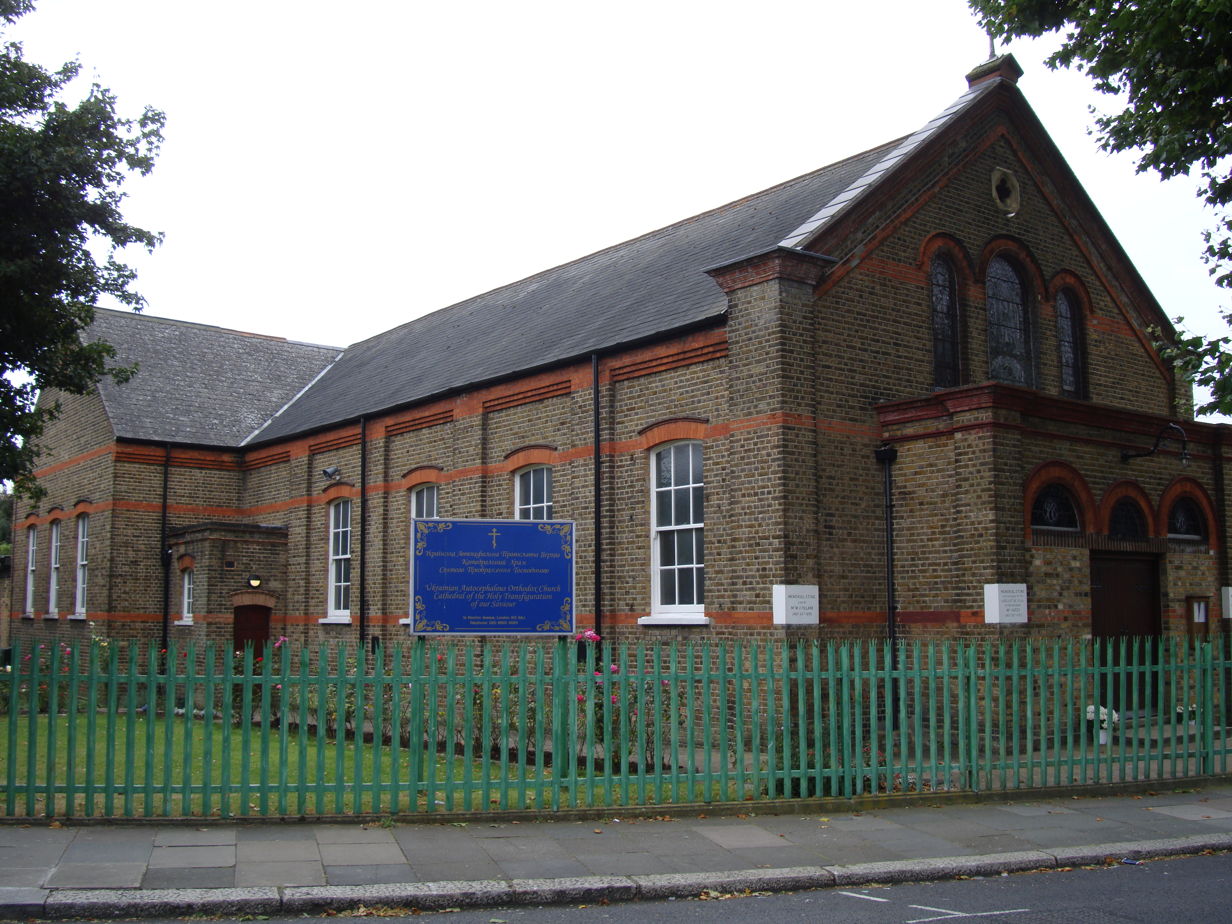 Photograph of the Ukrainian Autocephalous Orthodox Cathedral of the Holy Transfiguration of Our Saviour